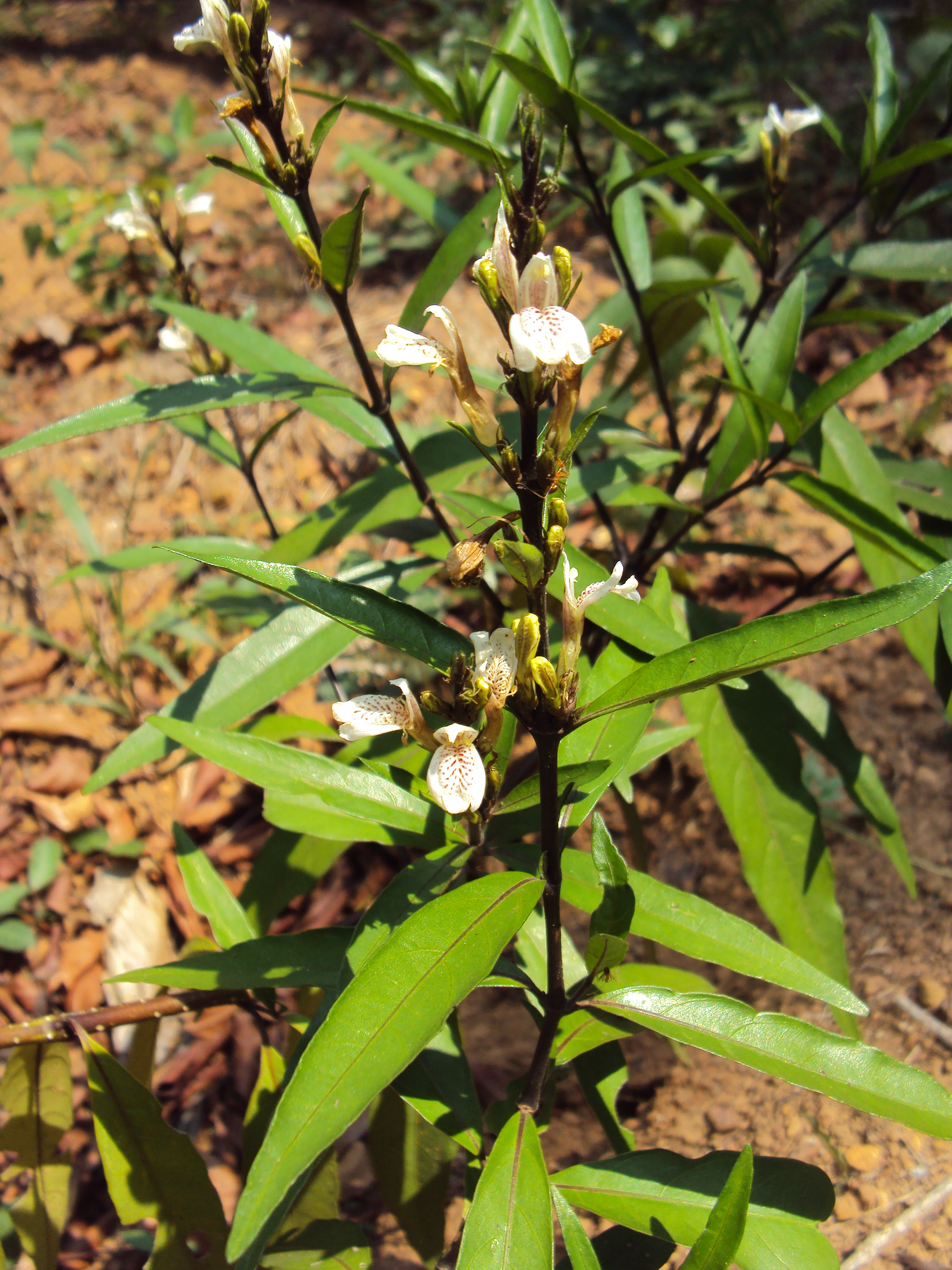 Justicia gendarussa